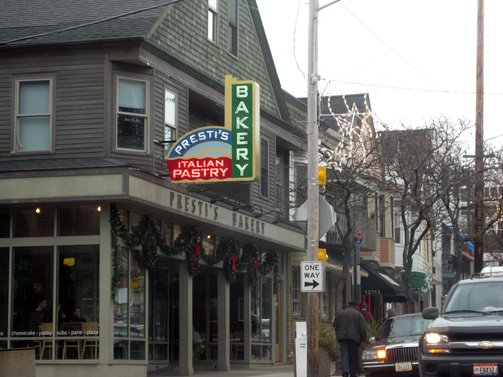 Little Italy, Cleveland, Ohio. The picture focuses on Presti’s Bakery, located at the northeast corner of Mayfield Road and Coltman Road.